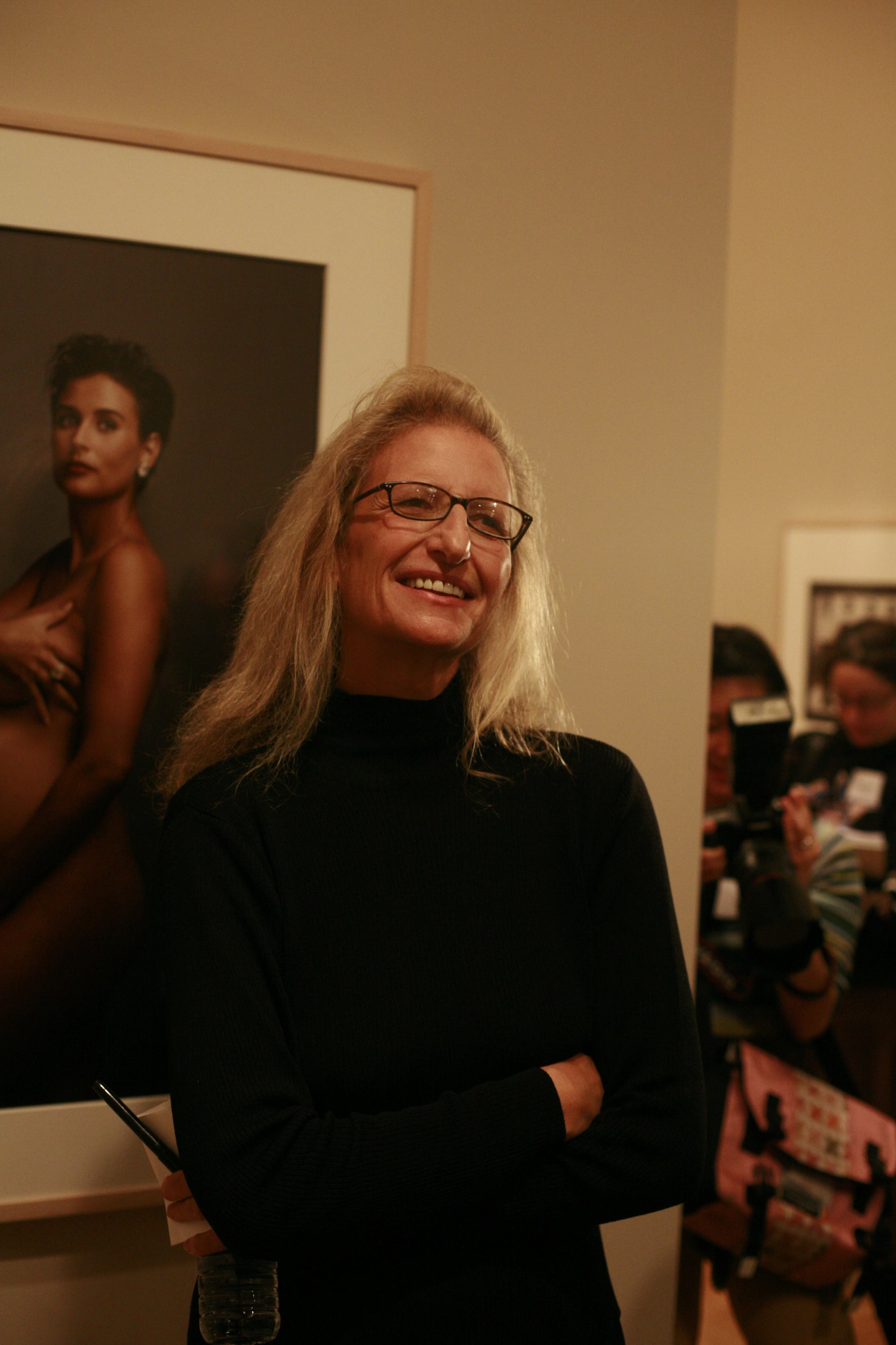 This photo shot by Marc Silber of Annie Leibovitz is one of the most famous photographers alive today. She shoots for magazines, was Rolling Stone's photographer, and has made images of many of the world's most famous people.